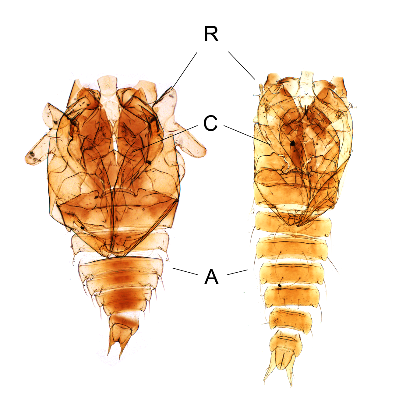 exuviae of pupae of Corethrella davisi (left) and Corethrella ananacola (right). A - abdomen; C - cephalothorax; R - respiratory organ